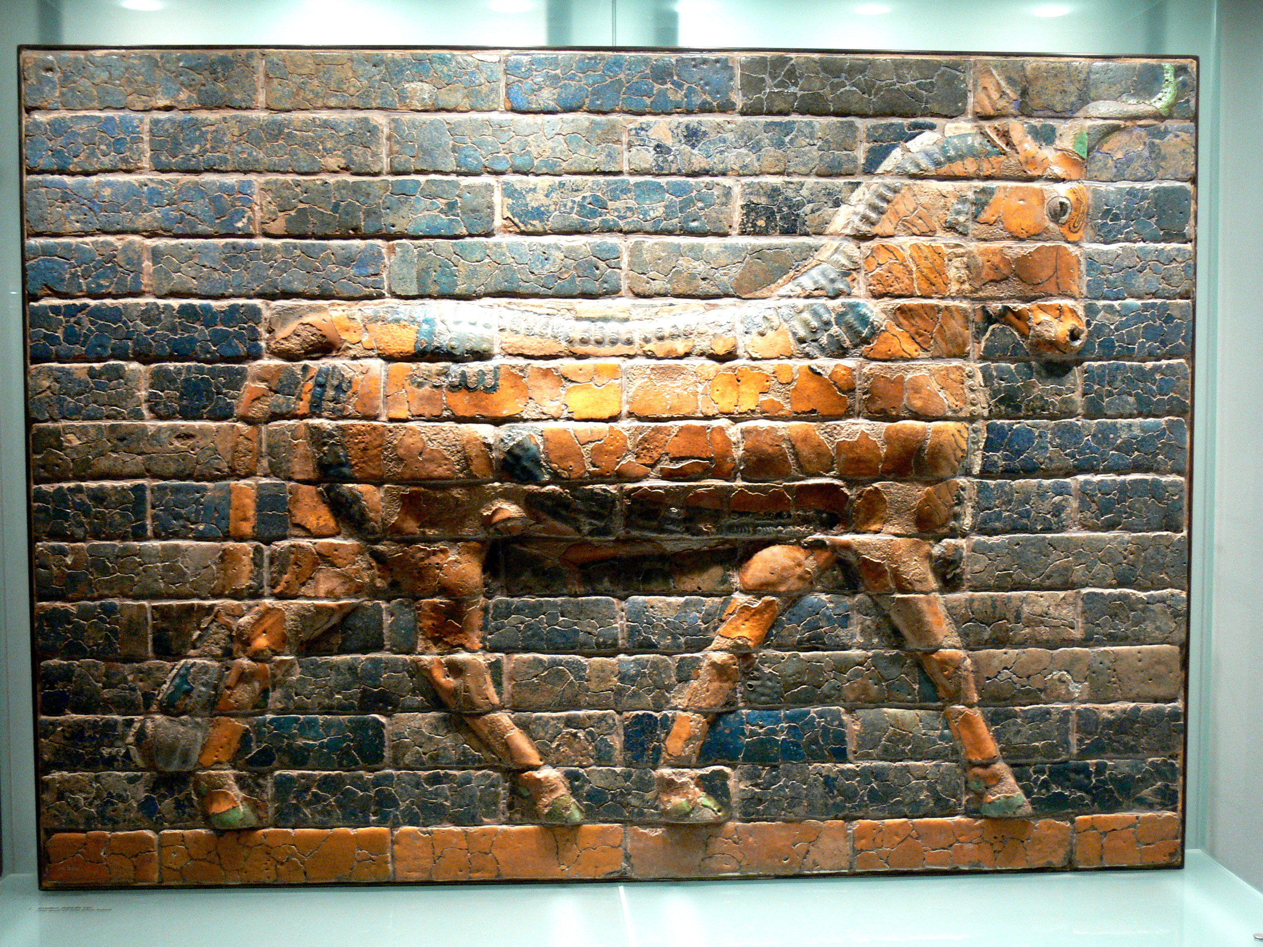 Bas-relief of a bull (unicorn) from the Ishtar Gate, Babylon, Ny Carlsberg Glyptothek, Copenhagen.